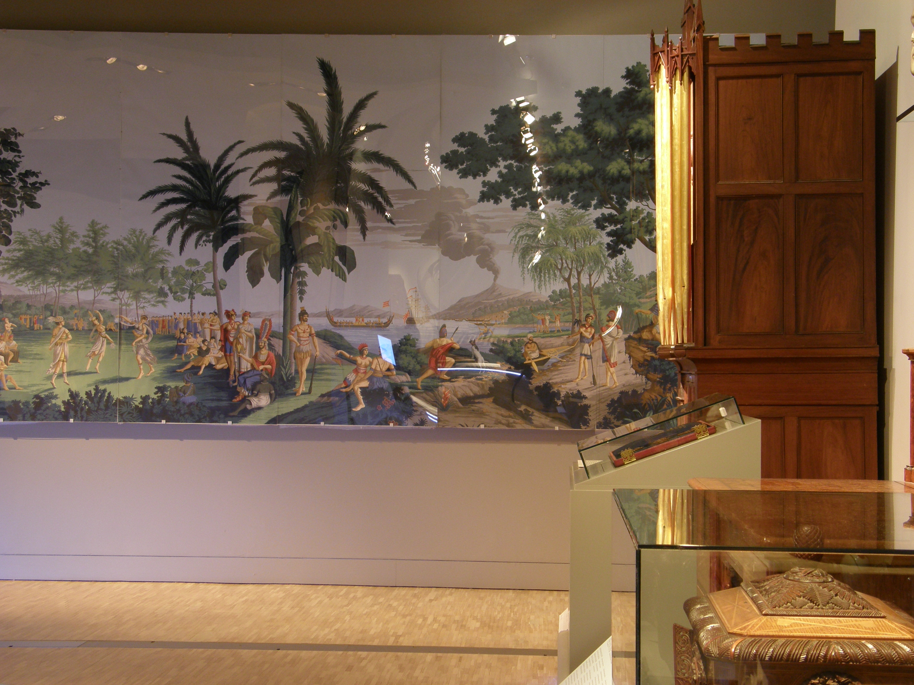 Wallpaper, Les Sauvages de la Mer Pacifique (Savages of the Pacific Ocean - Inhabitants of New Zealand) Les Sauvages de la Mer Pacifique (Savages of the Pacific Ocean - Inhabitants of New Zealand) originally designed by Jean Gabriel Charvet (1750 - 1829) for Joseph Dufour and Co. Mâcon, France (1800 - 1827), 1804 - 05 (seven panels from a series of twenty) This handprinted reproduction produced in 2006 by de Gournay Wallpapers